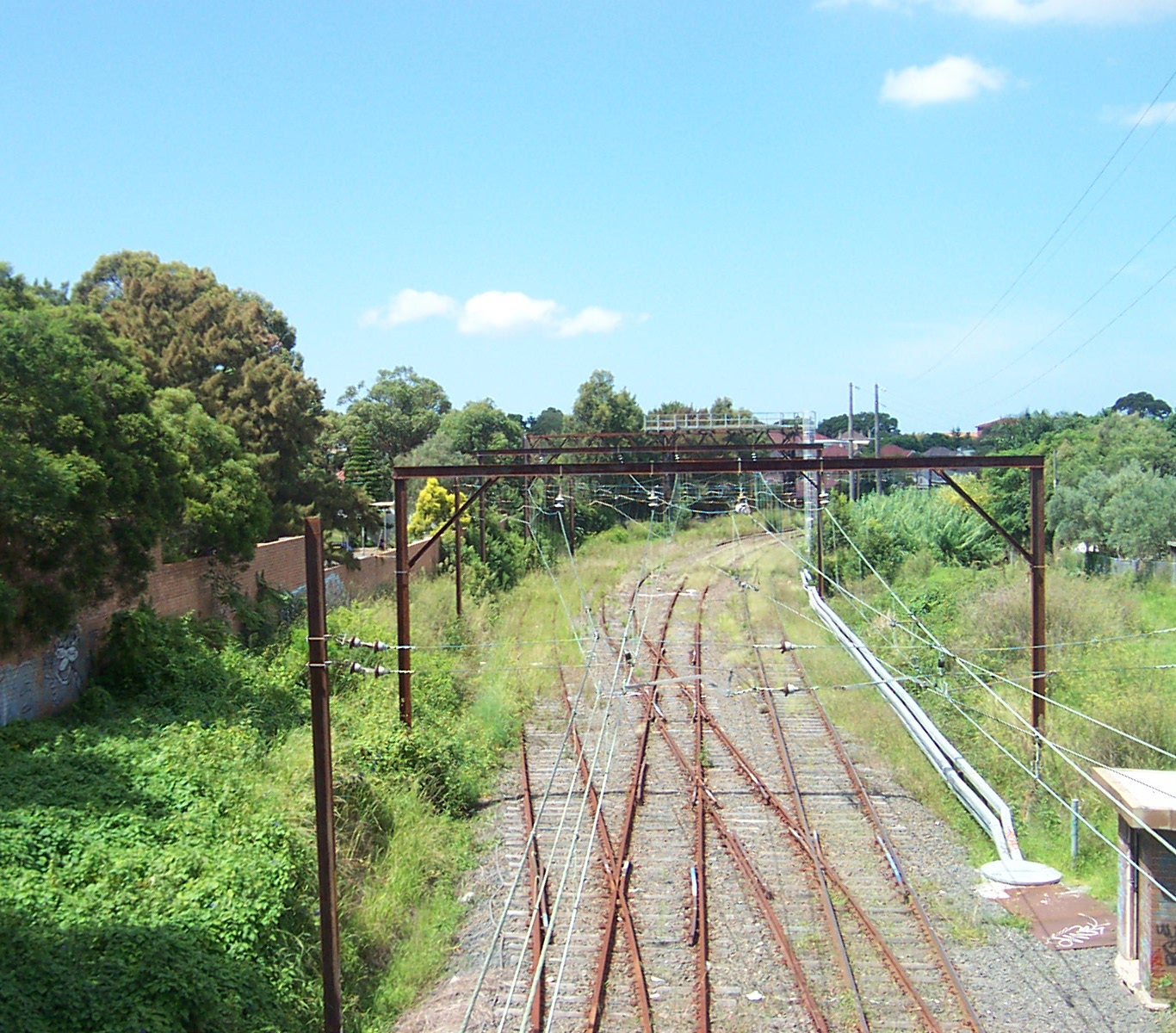 Rozelle branch of the Metropolitan Goods Railway Line, Sydney. The tracks converge from the triangle near Dulwich Hill station.